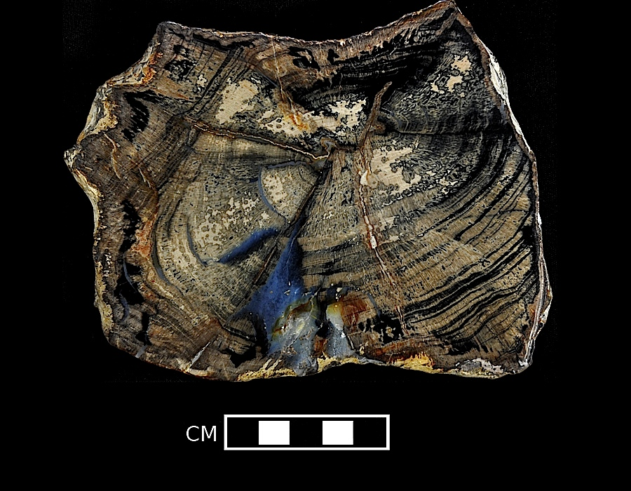 Callixylon whiteanum, permineralized wood of a progymnosperm, from the Late Devonian Woodford Shale Ada Oklahoma specimen F108571 in the Condon Collection, Museum of Natural and Cultural History, University of Oregon